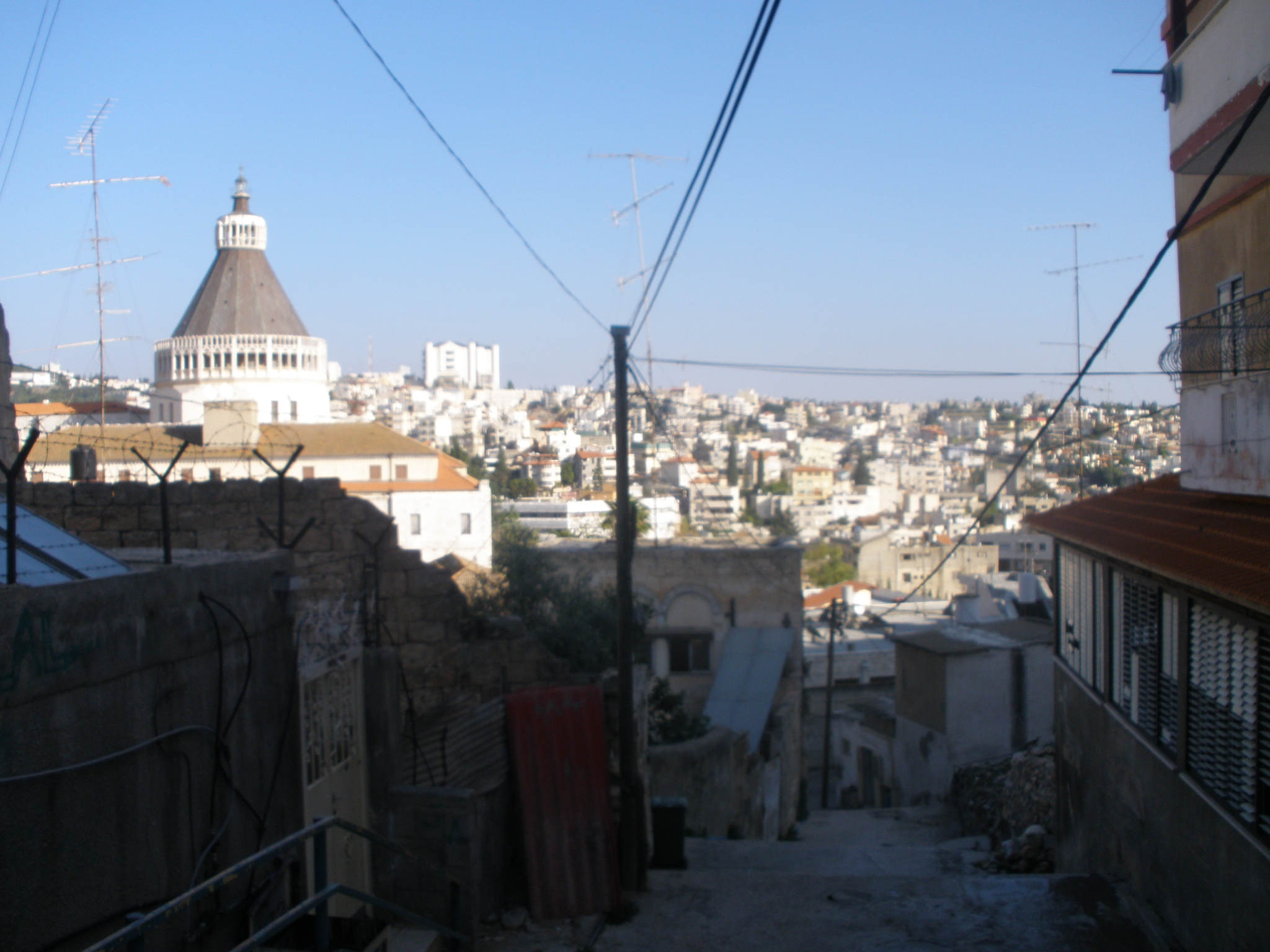 Nazareth, Architecture of Israel